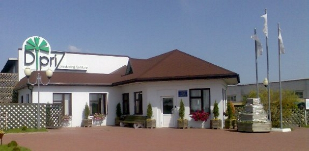 Entering Gate Беларуская (тарашкевіца): Уваход у ТАА «Дыпрыз», мястэчка Ўзногі, Баранавіцкі раён, Берасьцейская вобласьць